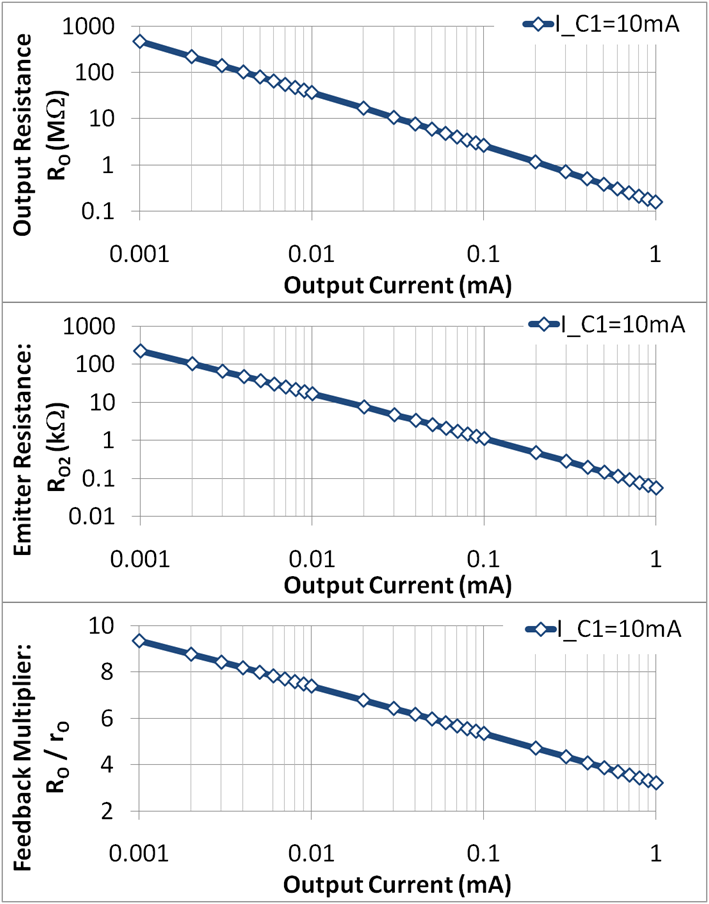 Plot of resistance of Widlar current source vs. the output current